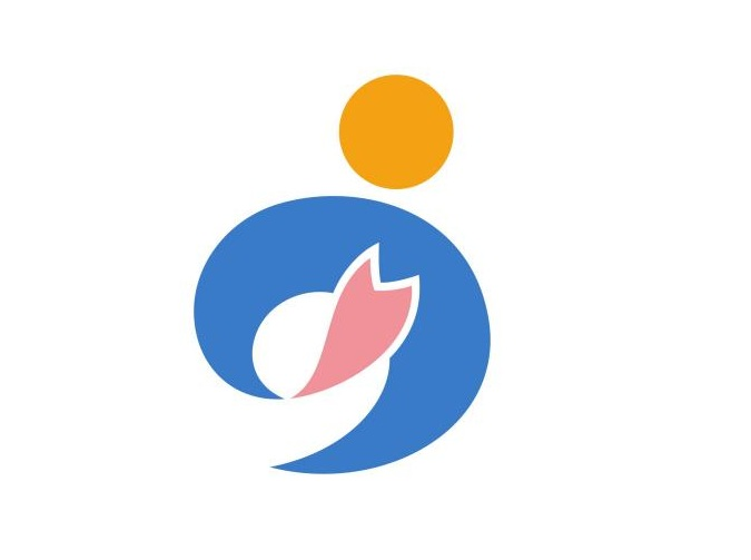 Flag of Nanbu Tottori